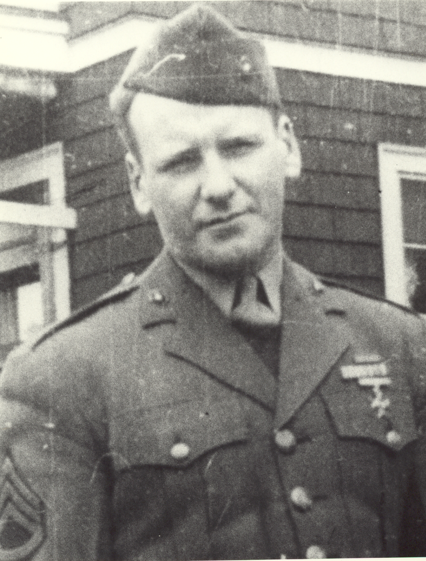 William G. Walsh, USMC, Medal of Honor recipient, killed in action on Iwo Jima during World War II; photo from official Marine Corps biography at